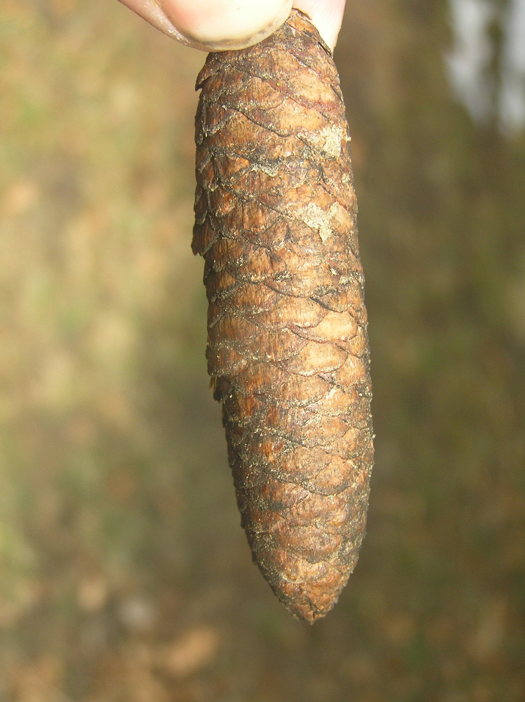 Picea asperata, female cone, cultivated in Brno, Czech Republic